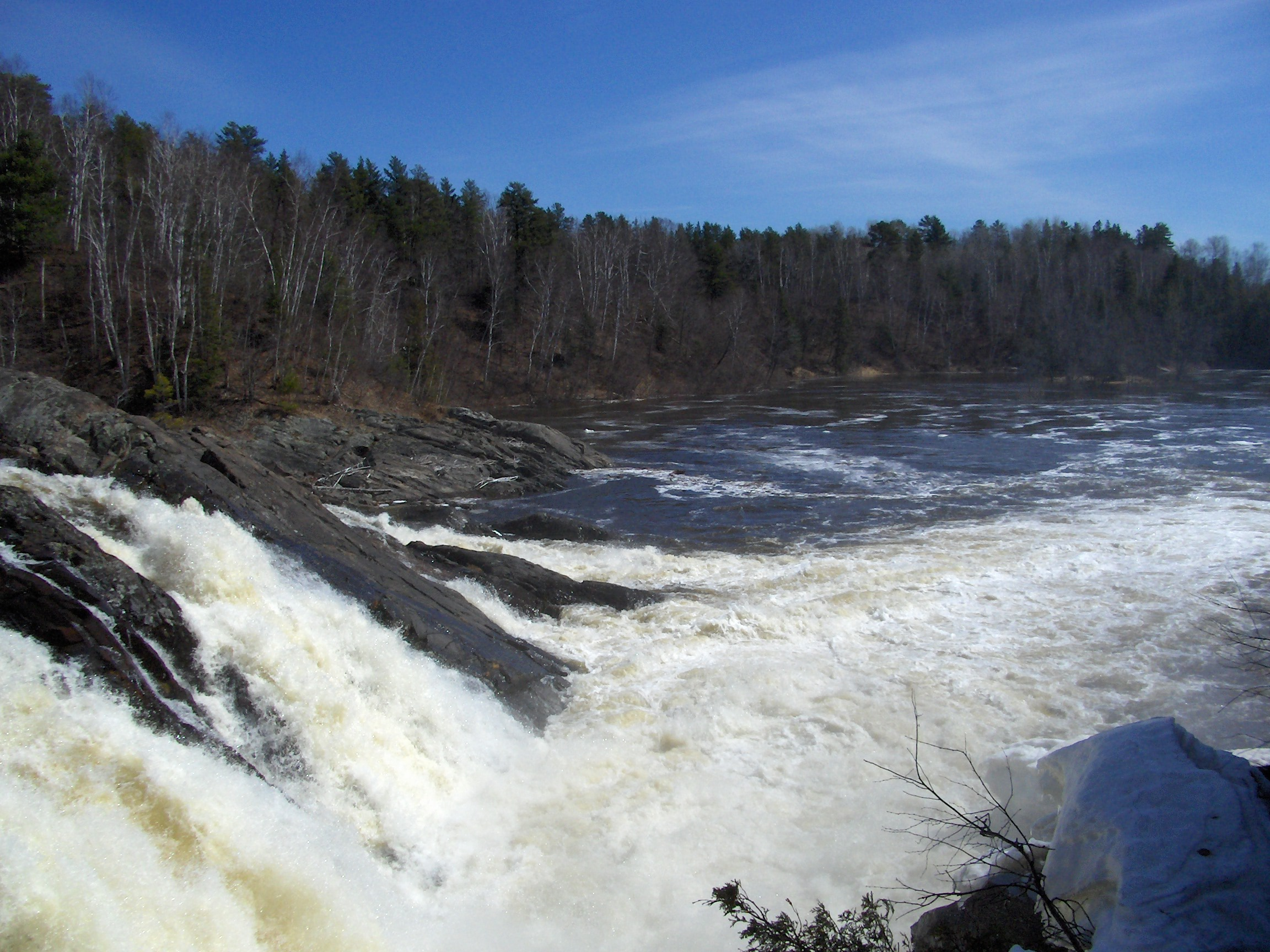 The waterfall at Chutes Provincial Park as seen from the viewing platform, looking towards the beach. Due to the spring run off, the water levels are high and most of the beach is underwater.